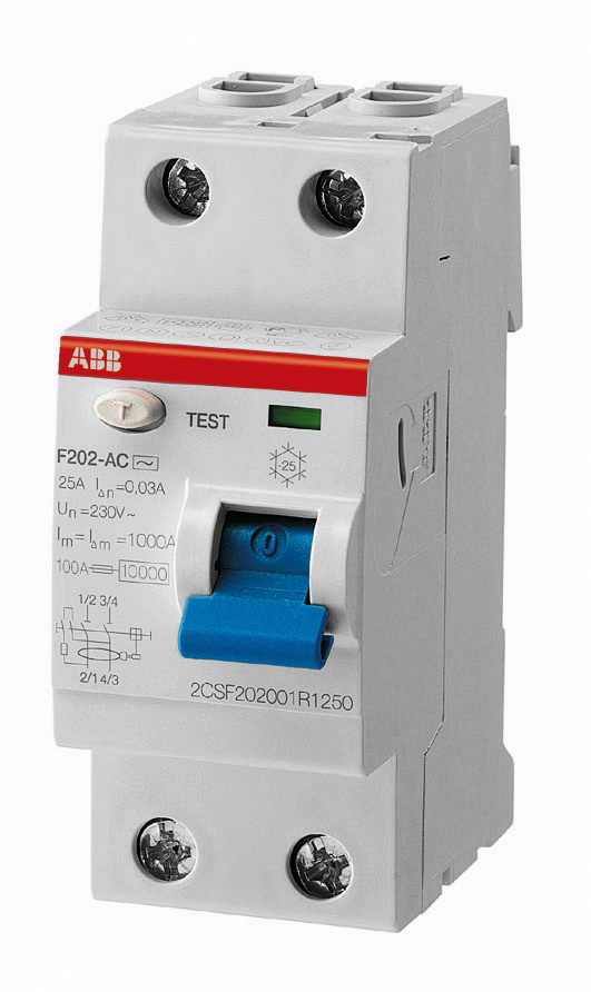 Residual Current Device F202